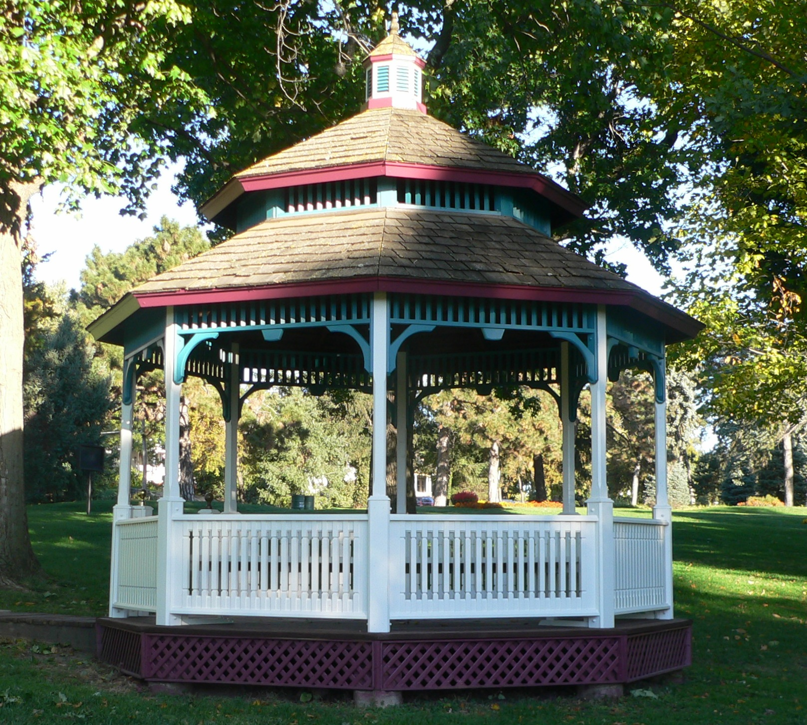 The recreated historic bandstand in Hanscom Park in Omaha, Nebraska. The bandstand is located near and northeast of intersection of 32nd and Hickory Streets. View is from the south.